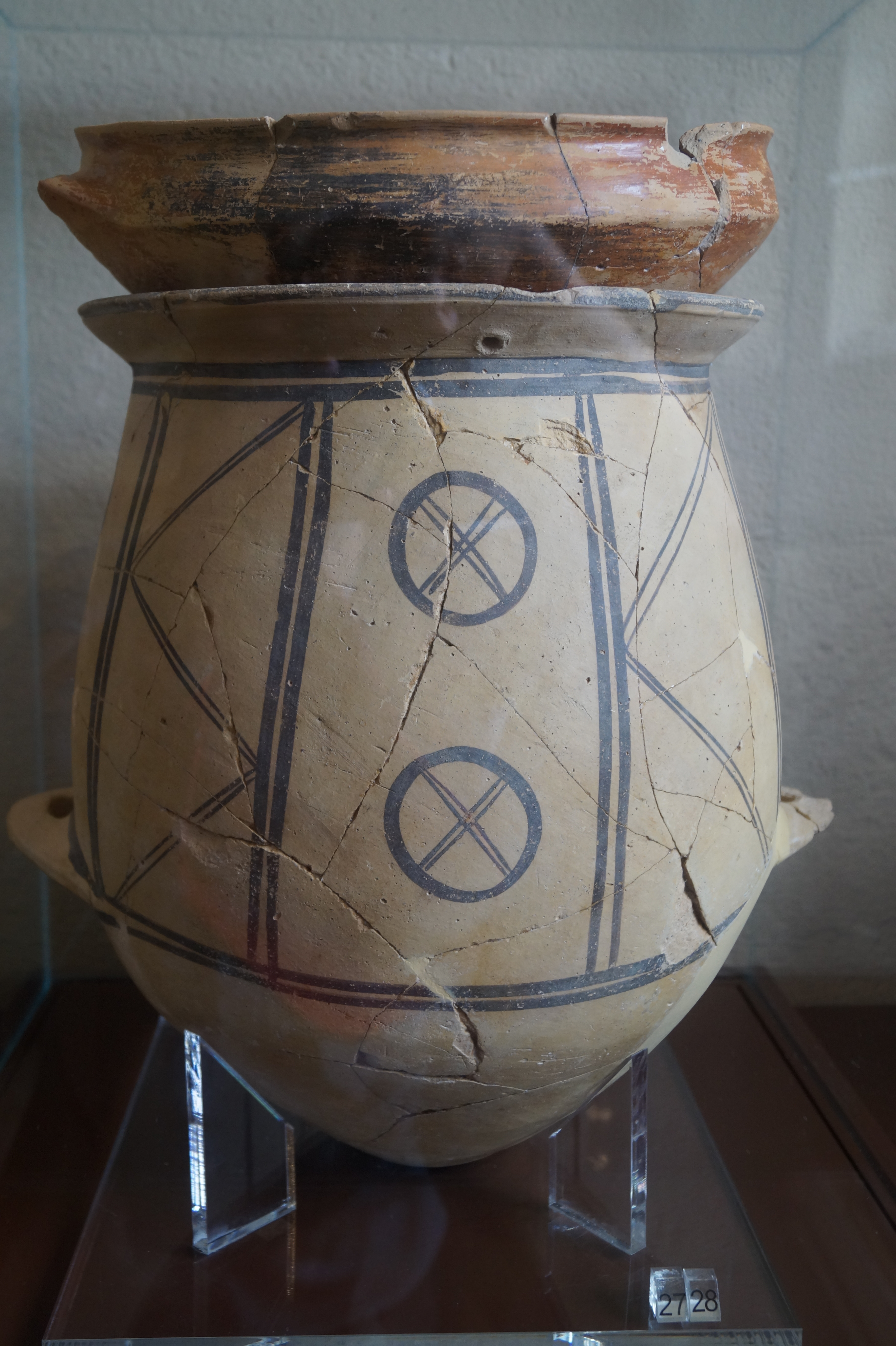 Archaeological Museum of Corinth, Greece: Pithoid jar containing two infant burials closed by a large bowl from Korakou (Middle Helladic, 2000-1550 BC).